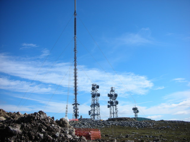 Sligo. Truskmore Summit. 2122 feet A work in progress. Upgrading the RTE mast on the summit of Truskmore, at the expense of the triangulation pillar, near the bottom of the tallest mast.